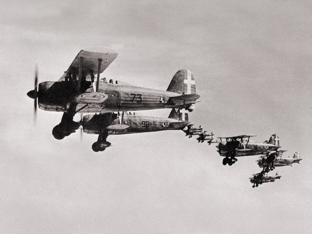 Fiat CR.42 of the 73rd and 97th Squadrons 9th Group, 4th Storm - Benina Lybia 1040